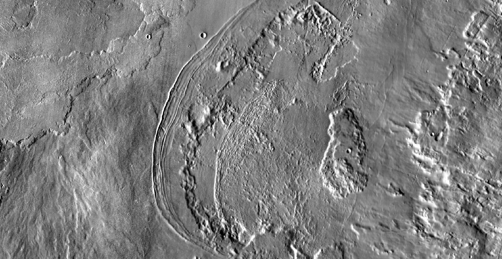 Fan-shaped deposit west of Ascraeus Mons